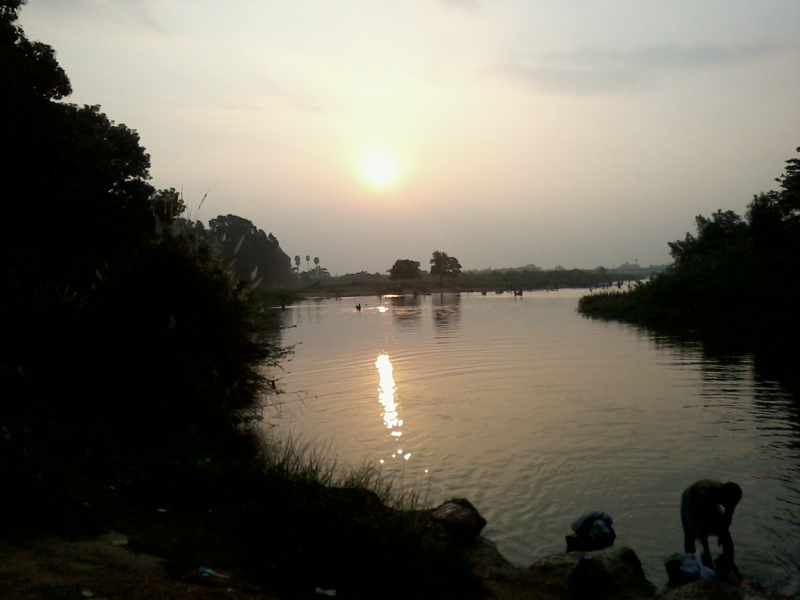 It took from periya padi. morning 7 o clock